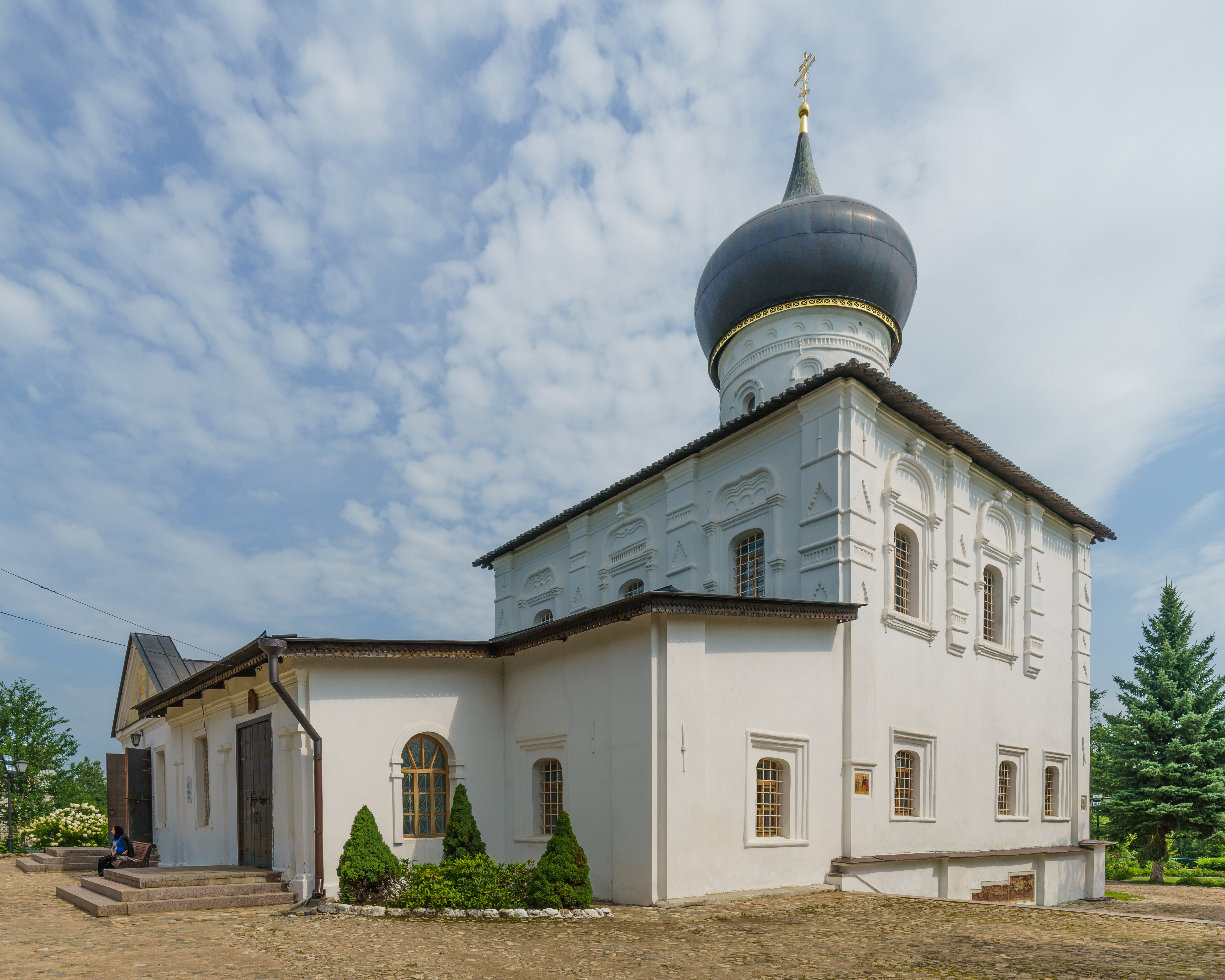 St. George Church in Staraya Russa, Novgorod Oblast, Russia